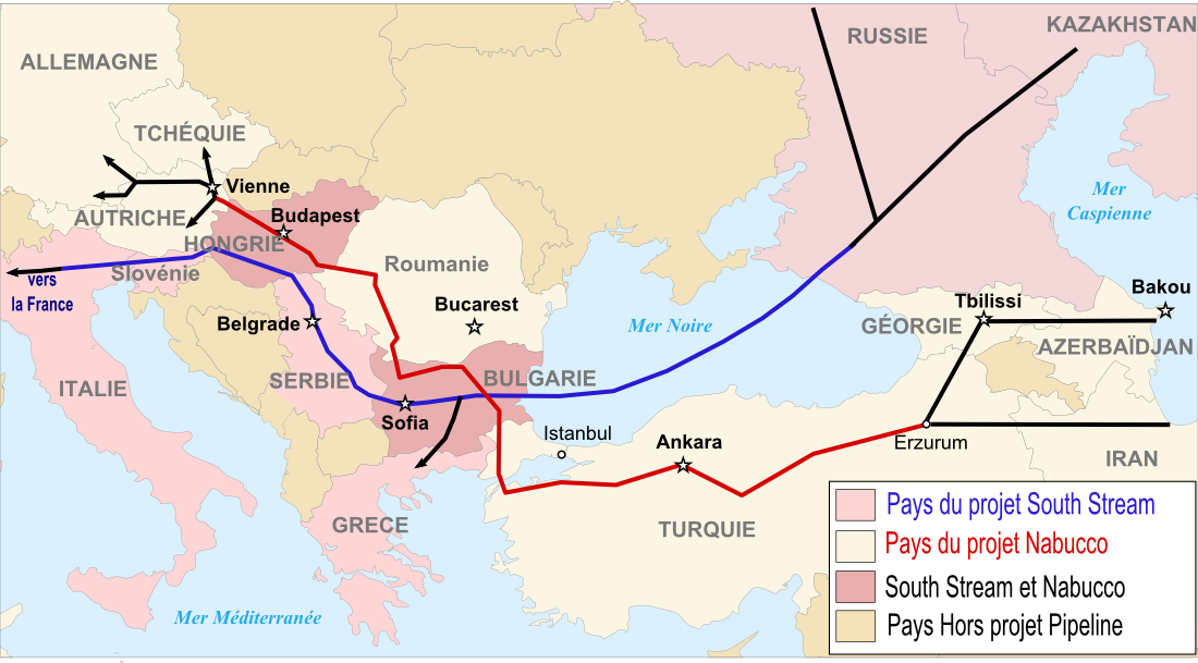 Pipline South stream and Nabucco